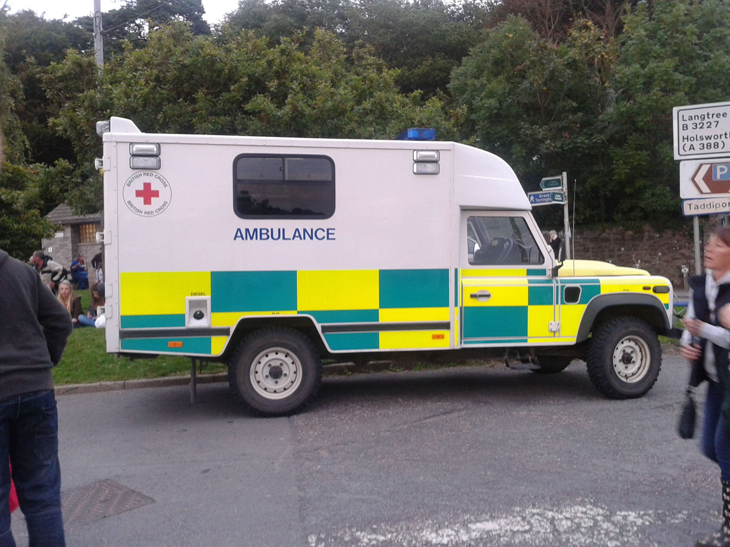 Land Rover ambulance of the British Red Cross